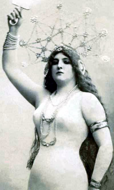 Albumen photograph of Clara Ward in one of her poses plastiques. No photographer indicated, although probably Léopold-Émile Reutlinger of Paris. Owned by and scanned and retouched by Tim Ross, who releases all rights.